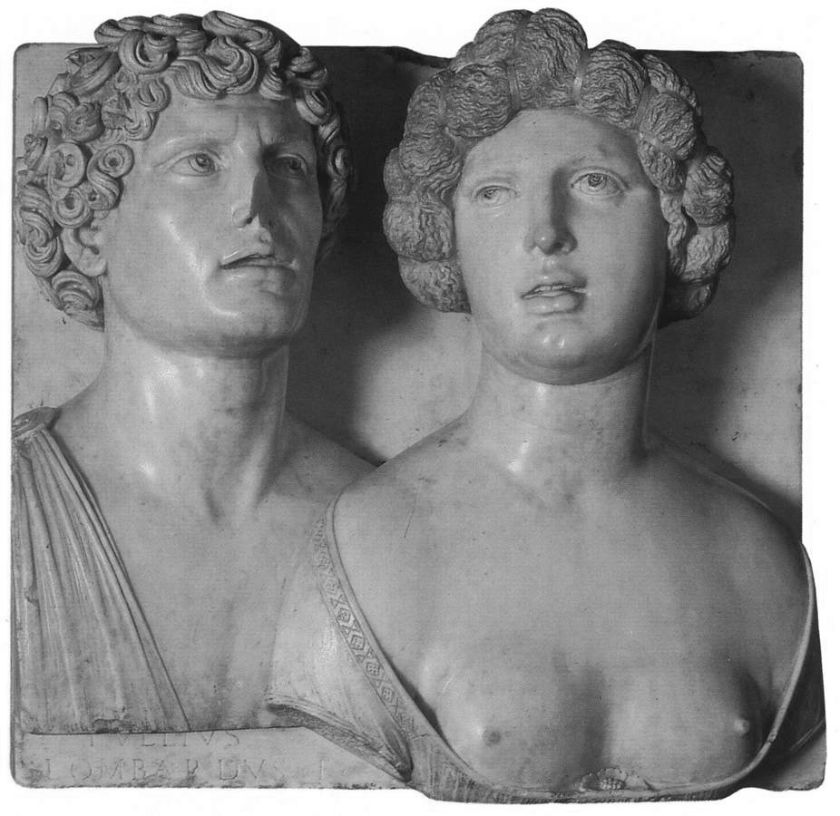 Double portrait.